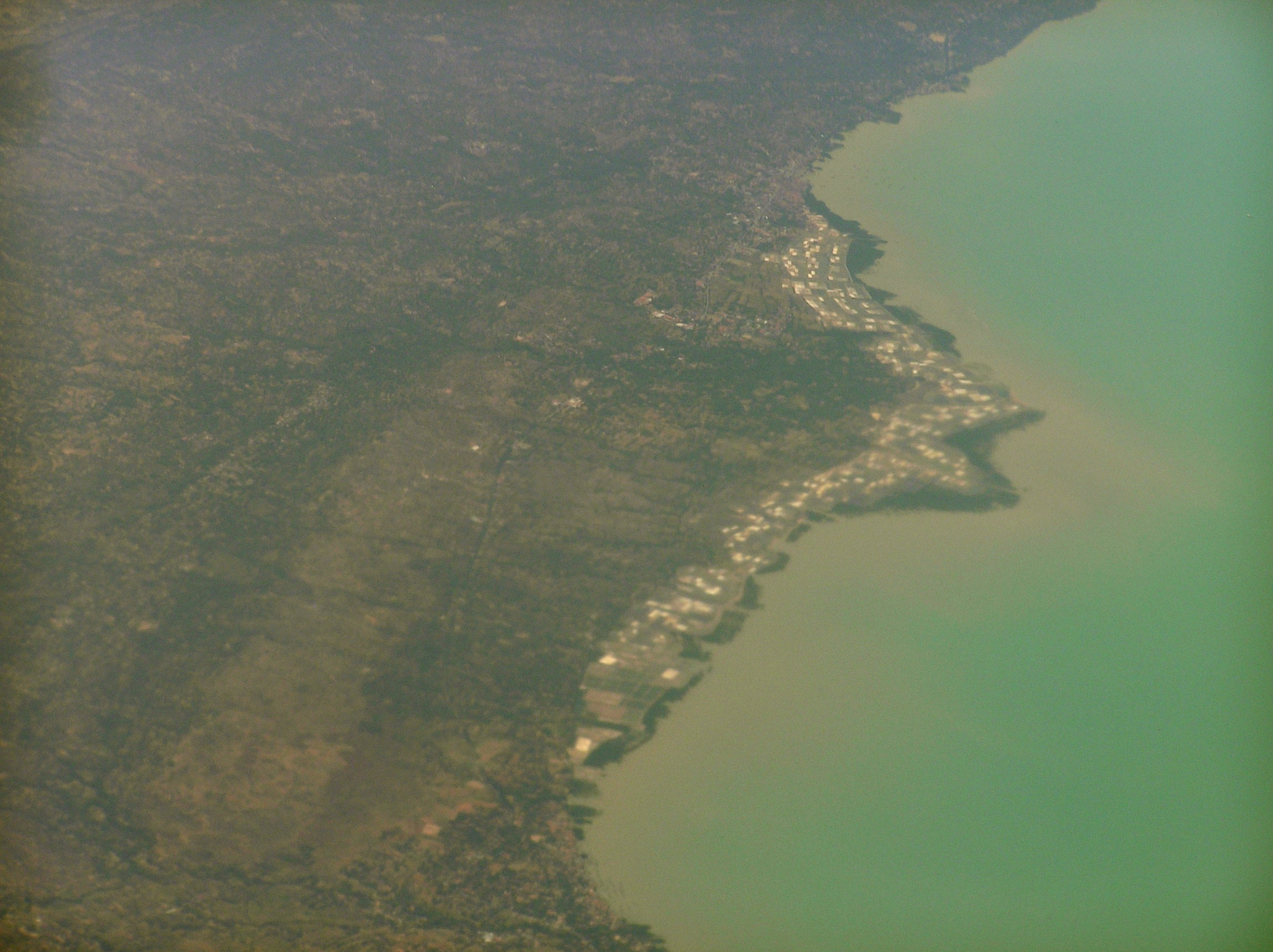 aerial photo of Sendang area east of Pamekasan Madura looking east.